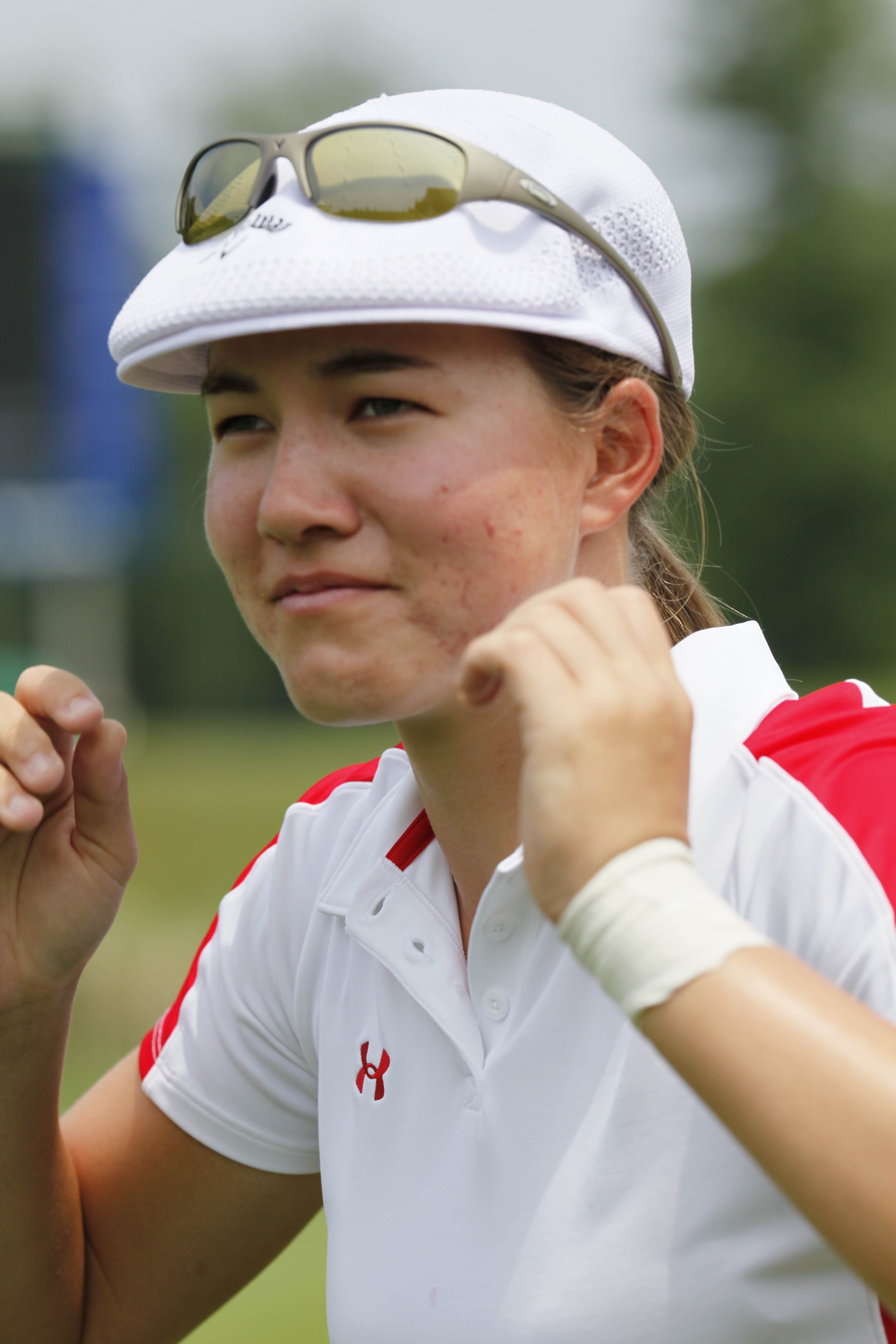 HAVRE DE GRACE, MD - JUNE 10: Vicky Hurst (USA) during practice round before 2009 LPGA Championship held at Bulle Rock Golf Course, on June 10, 2009 in Havre de Grace, Maryland. (Photo by Keith Allison)